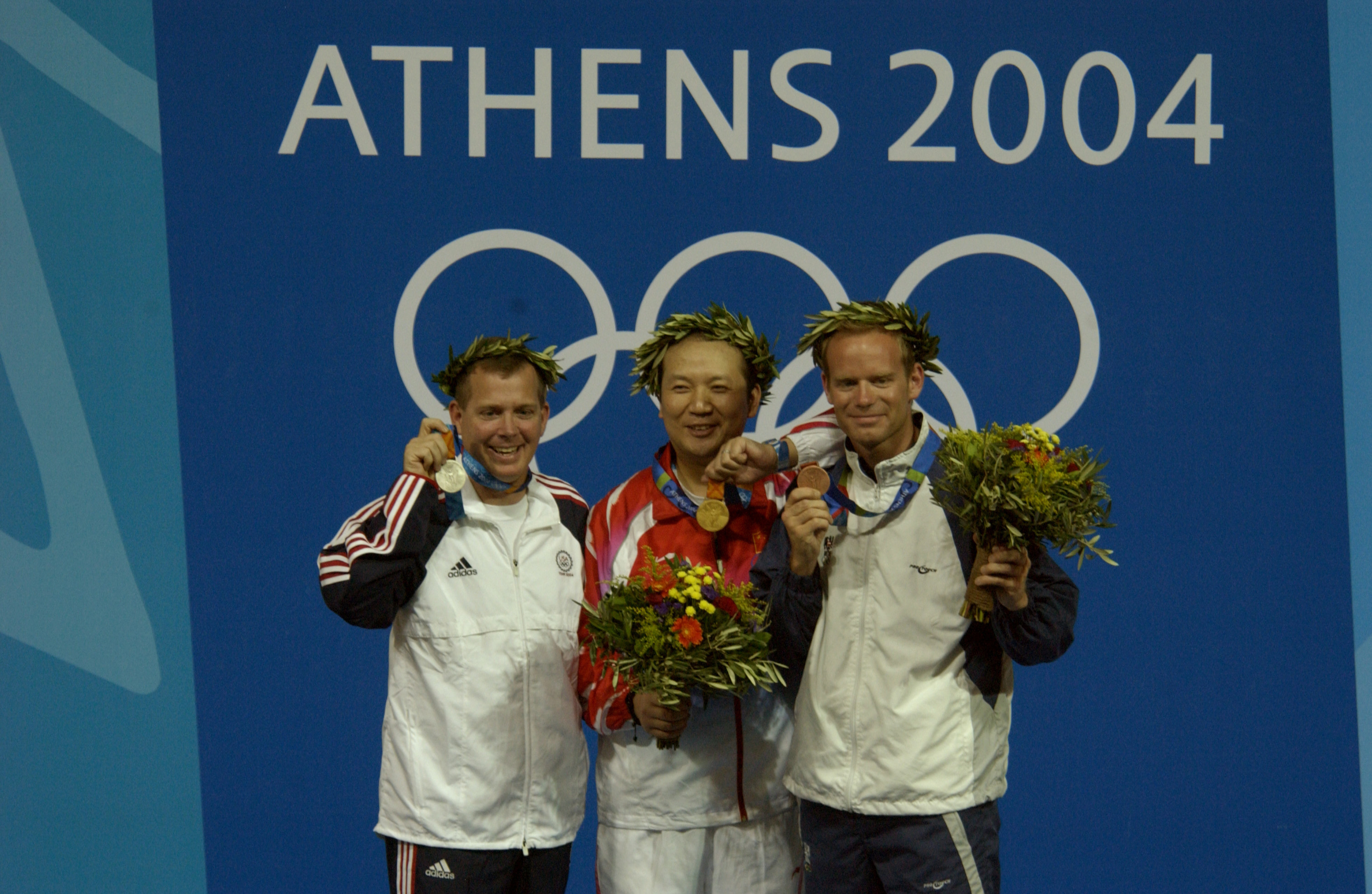 Army Maj. Michael Anti (left) holds up his Silver medal following the 2004 Olympics medal ceremony for the Men's 50m Three-Position Rifle Competition at the Markopoulo Shooting Center in Athens, Greece, on Aug. 22, 2004. Zhanbo Jia from China (center) took the Gold and Christian Planer (right) from Austria took the Bronze. Anti is assigned to the U.S. Army Marksmanship Unit, Fort Benning, Ga. DoD photo by Master Sgt. Lono Kollars, U.S. Air Force. (Released)